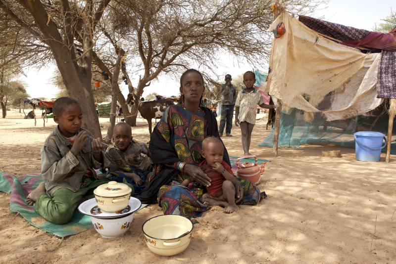 Rafia, a refugee woman from Mali, rests under a tree near her makeshift shelter in Mangaize, in northern Niger. She fled Menaka town in Mali in January with her two children because of the general insecurity.